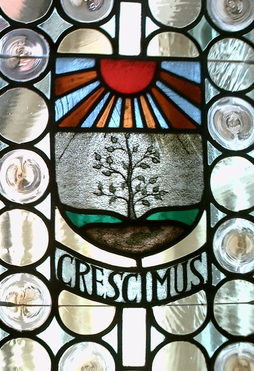 Collegium Liborianum in Paderborn, Germany, Maxim: (latin:CRESCIMUS ‚We are growing‘)